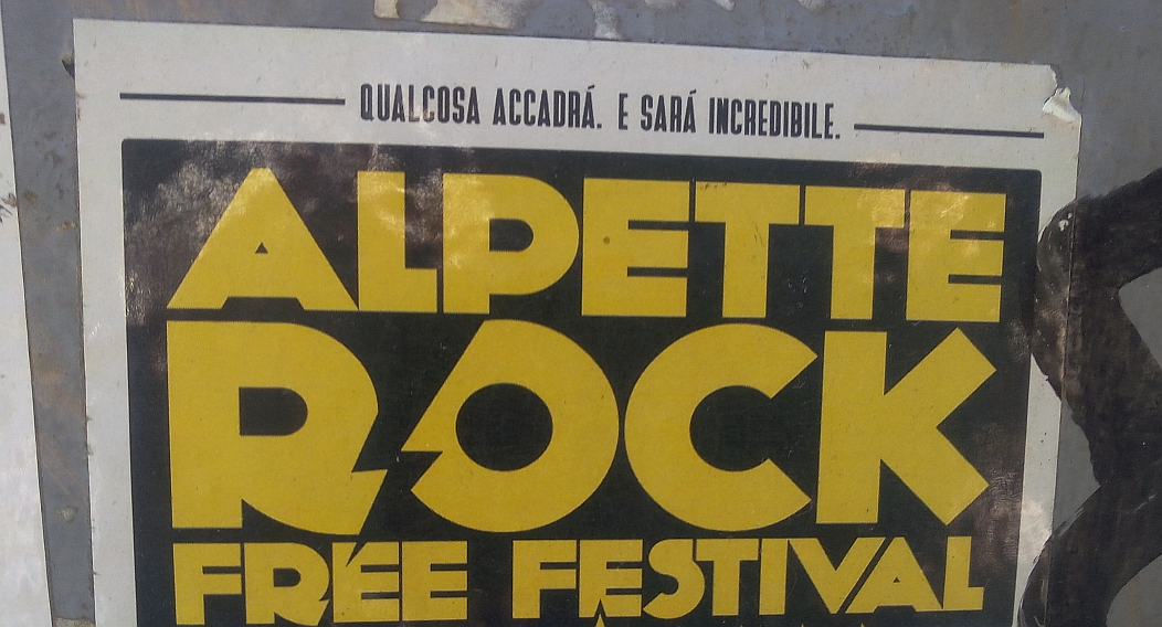 Alpette Rock Free Festival (unidentifyed veue): detail of an ad in a Turin street